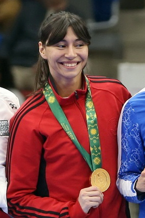 Karate at the 2017 Islamic Solidarity Games, women kumite −55 kg